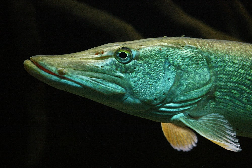 Northern pike (Esox lucius) in aquarium (Müritzeum, Waren, Germany).